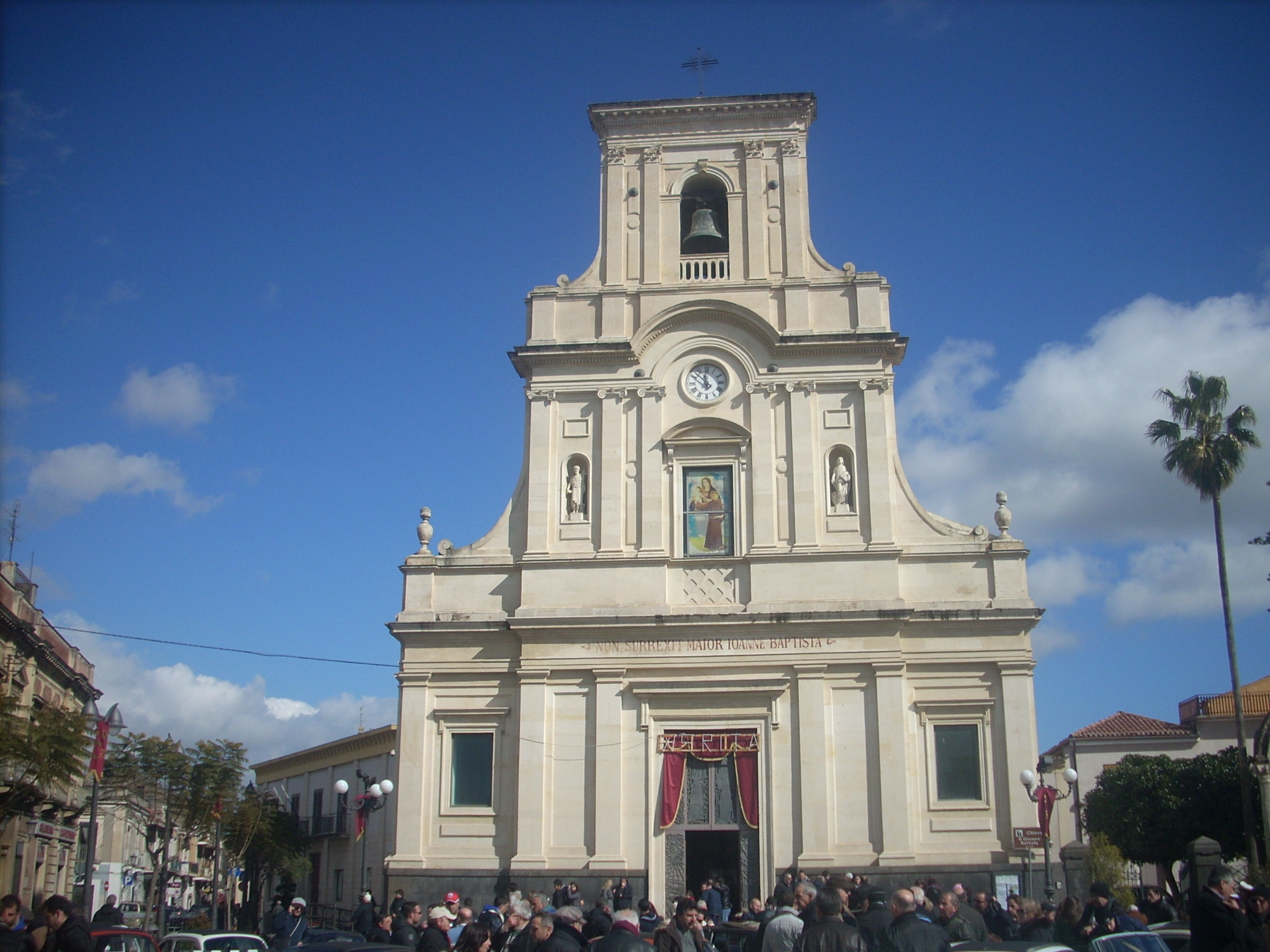 15th century San Giovanni Battista Church, San Giovanni La Punta, Sicily